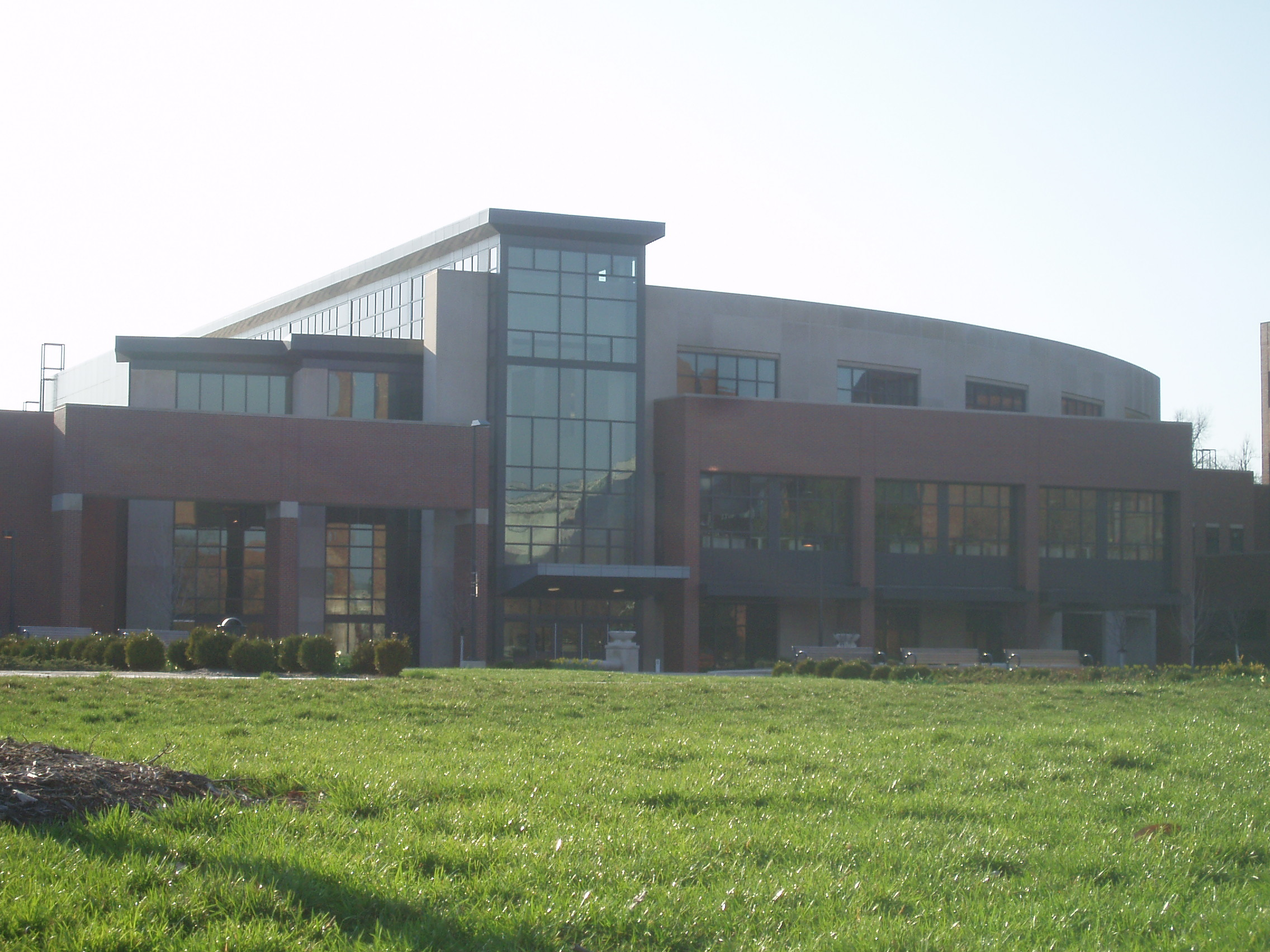 David Letterman Building Ball State University